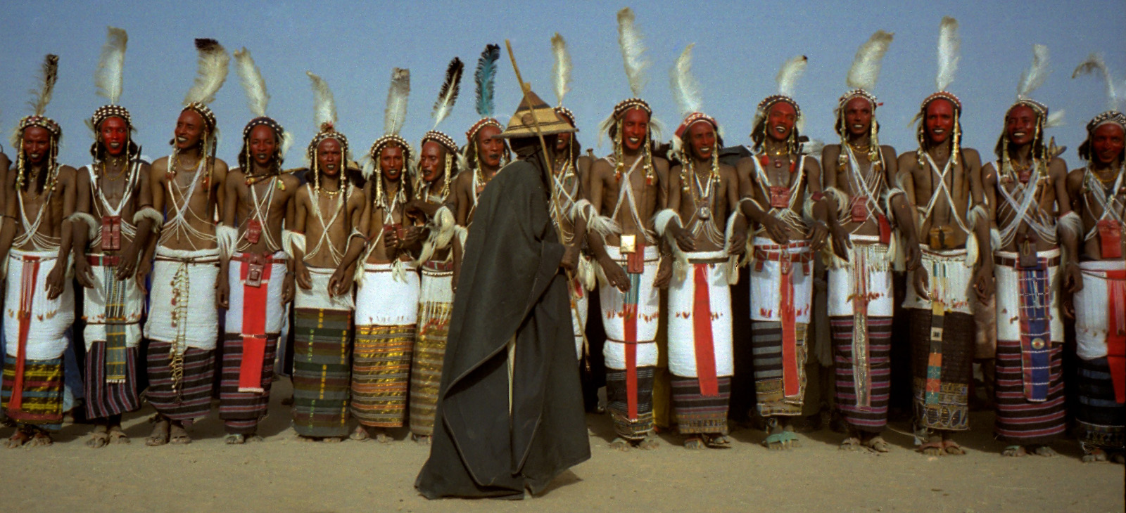 Gerewol contestants sing and dance while flaunting the whiteness of their eyes and teeth.